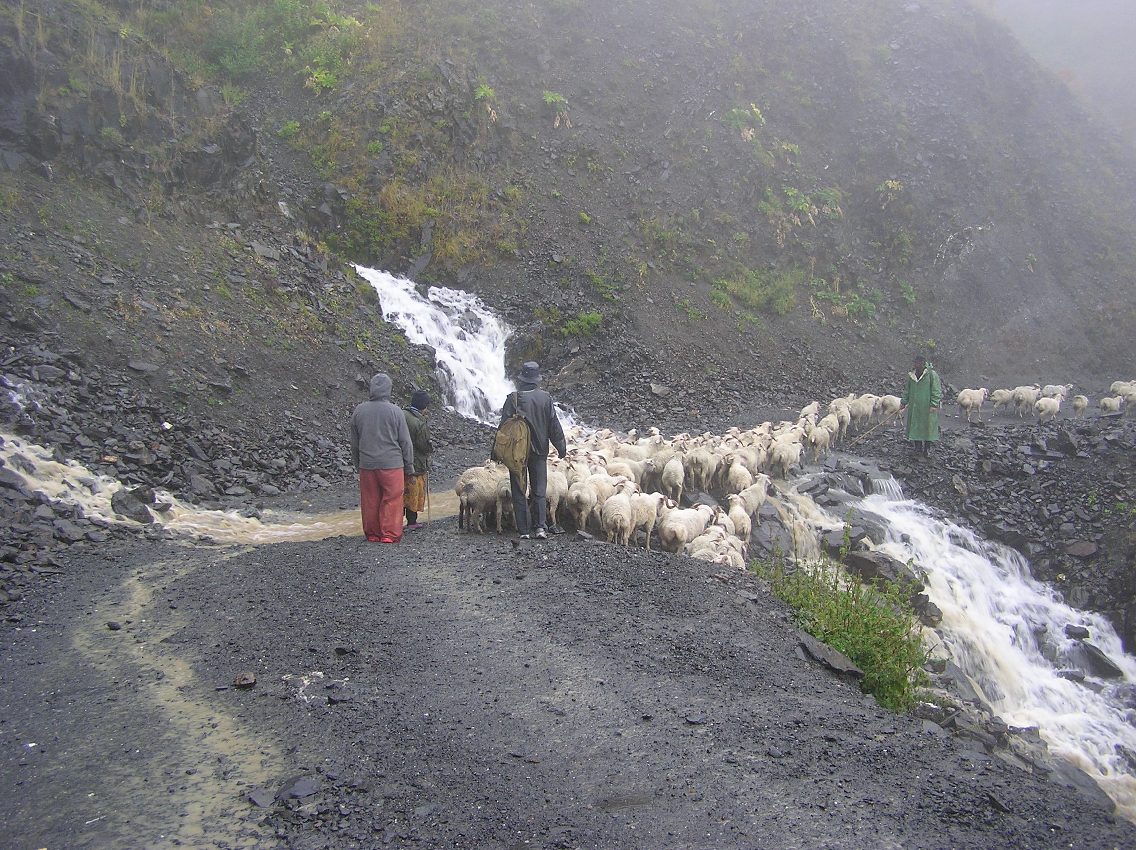 The way from dusheti to tusheti